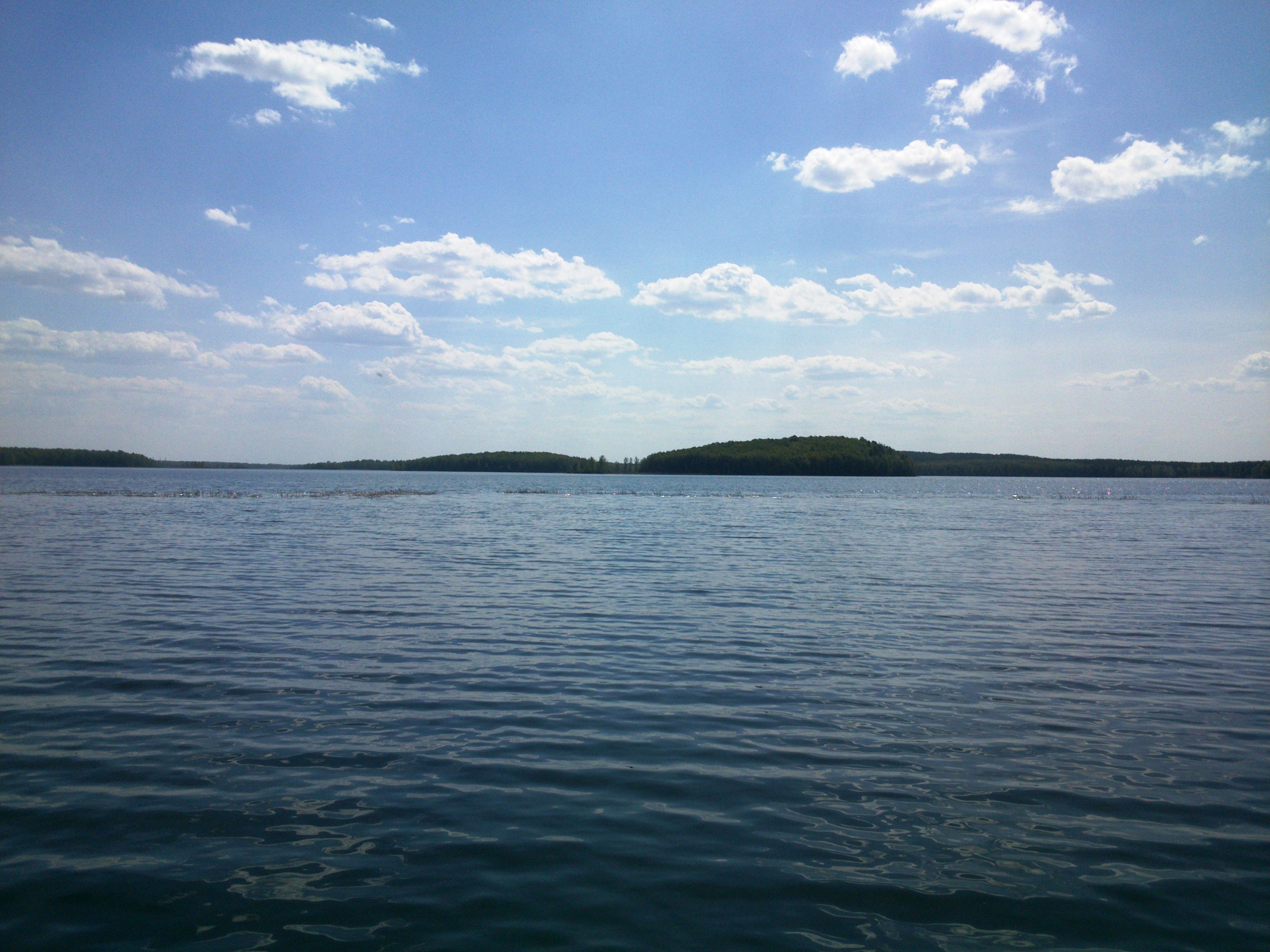 Big Sunukul Lake